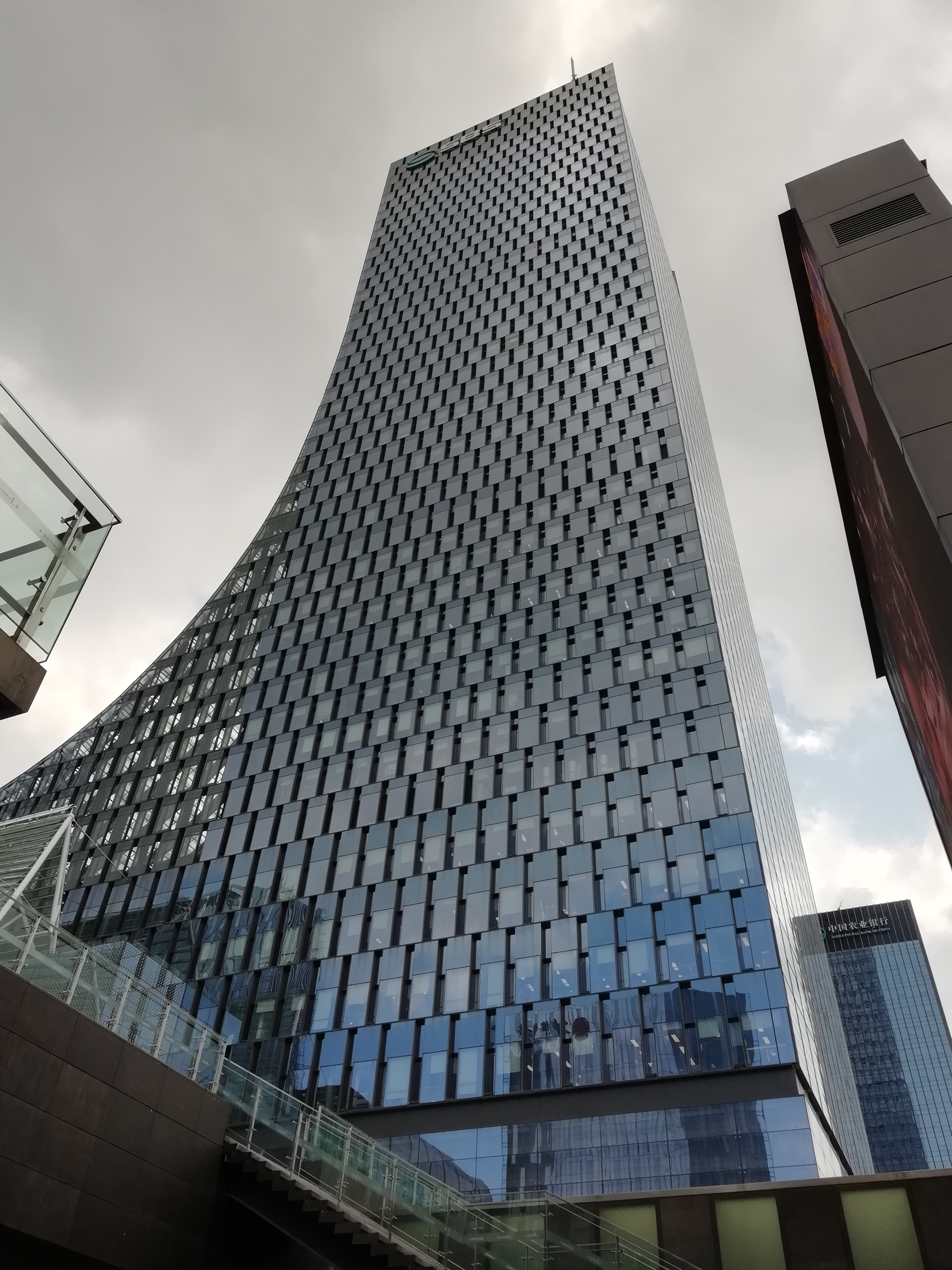 Suzhou Modern Media Plaza, taken on August 15, 2018 中文（中国大陆）: 2018年8月15日的苏州现代传媒广场